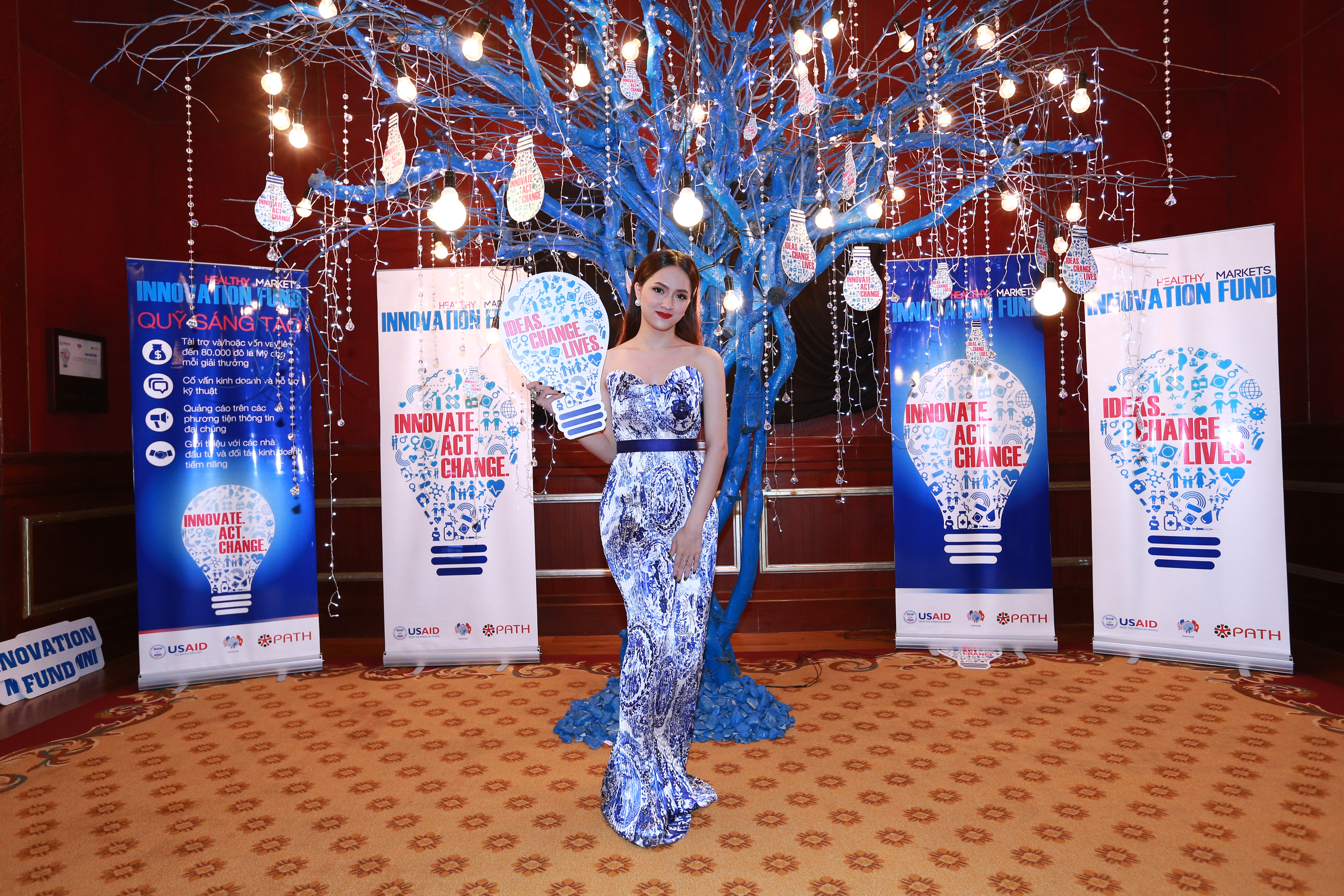 Ho Chi Minh City, August 21, 2015. Photo: PATH/HMA.